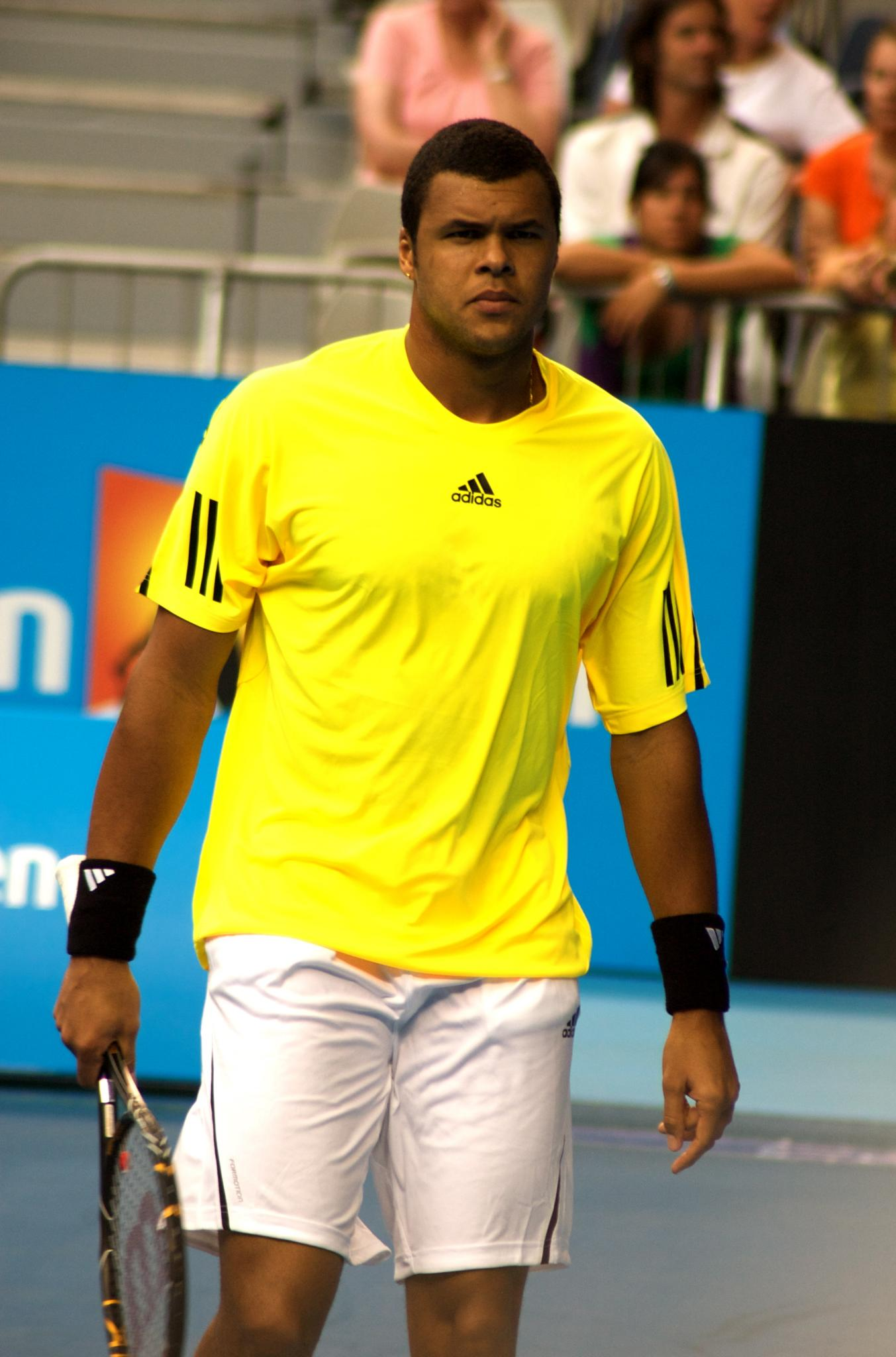 Jo-Wilfried Tsonga at 2009 Australian Open, Melbourne, Australia.